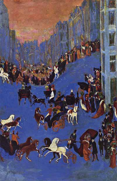 Street Oil on cardboard, tempera, bronze paint. 48,2 × 30,6 cm The painting is located in the National Gallery of Armenia.